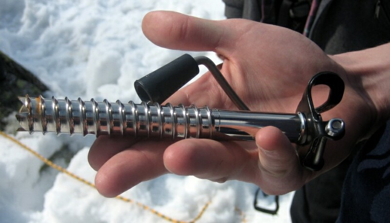 Ice screw (16cm Grivel 360)